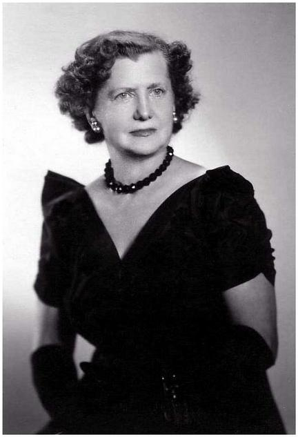 Widow portrait of Anna A. Korn (1891–1987), Mrs. Isaac E. Korn (née Andersson), widow of one of Al Capone's lawyers, as released by image owner FamSACPlace: Chicago, Illinois